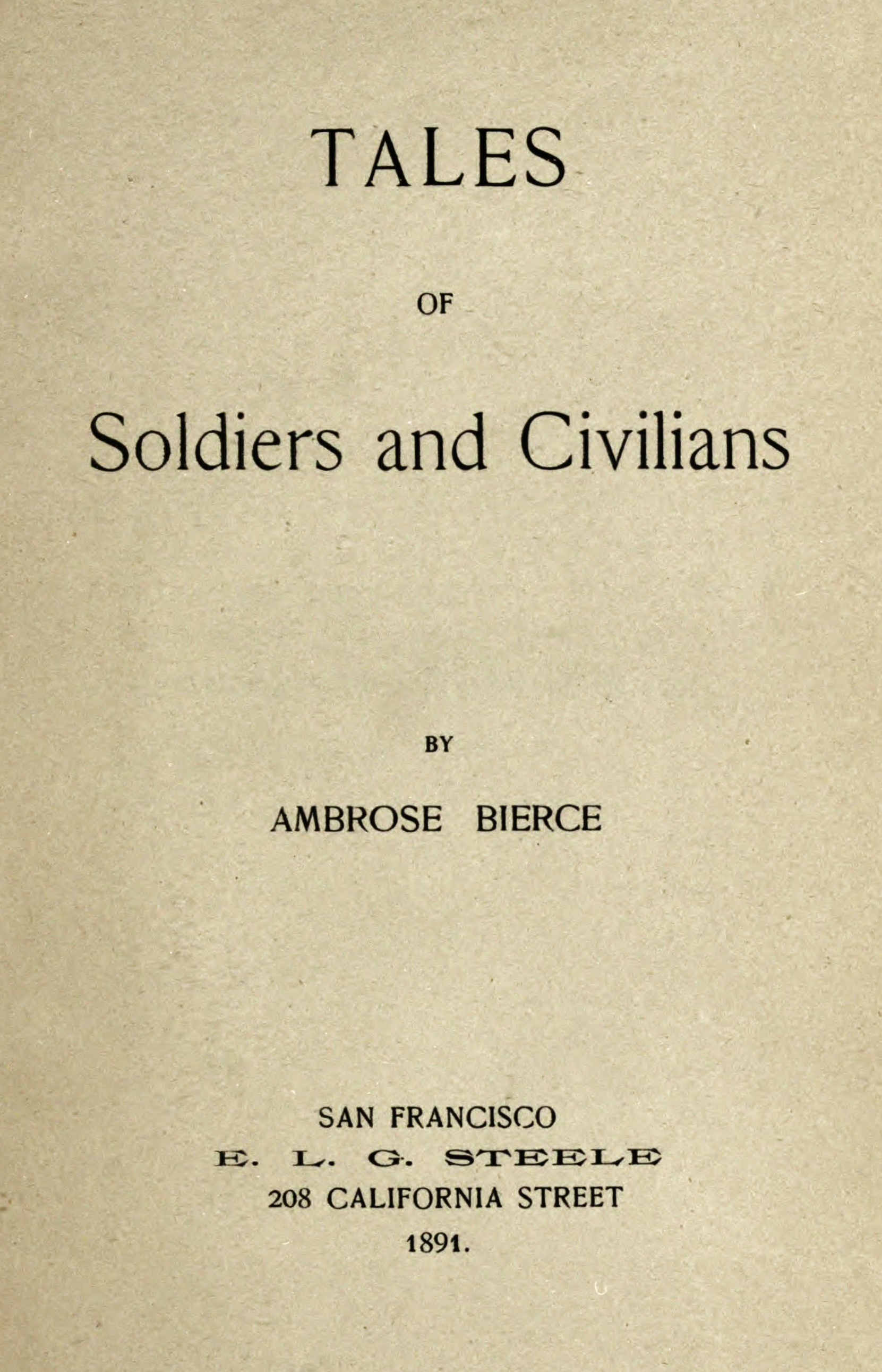 Tales of Soldiers and Civilians 1st ed title pg